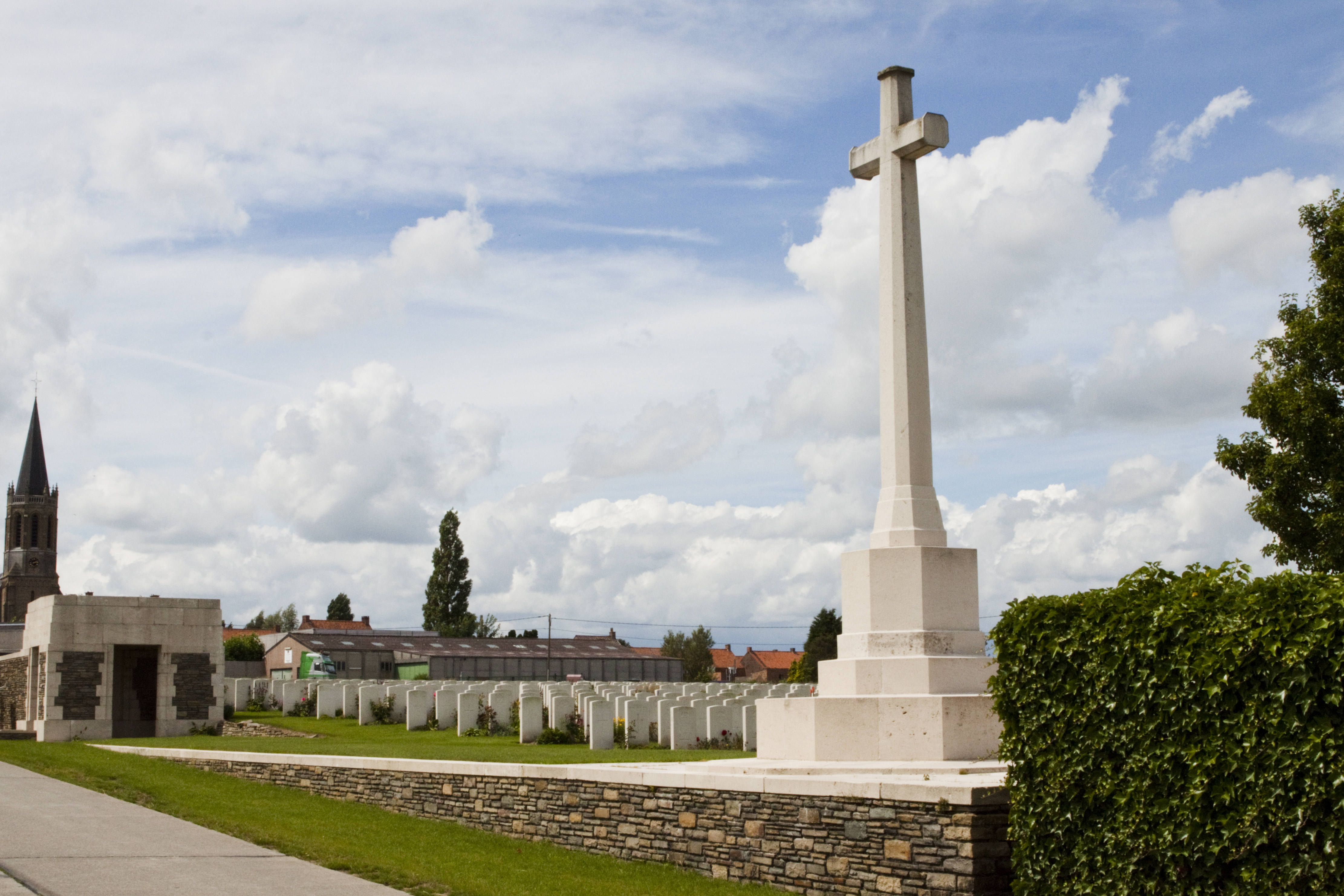 Zantvoorde British Cemetery. View with Cross of Sacrifice.